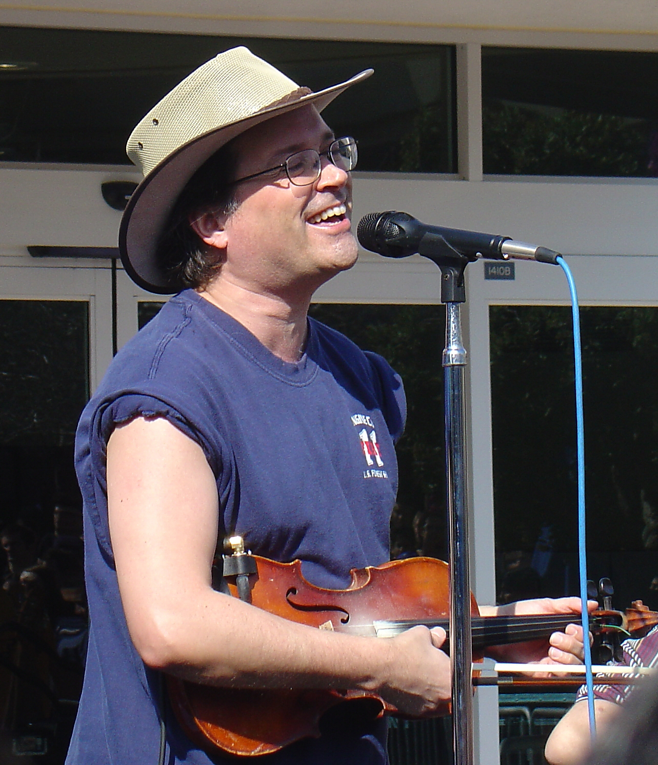 Violent Femmes Concert at UCSD - Jan 31, 2006